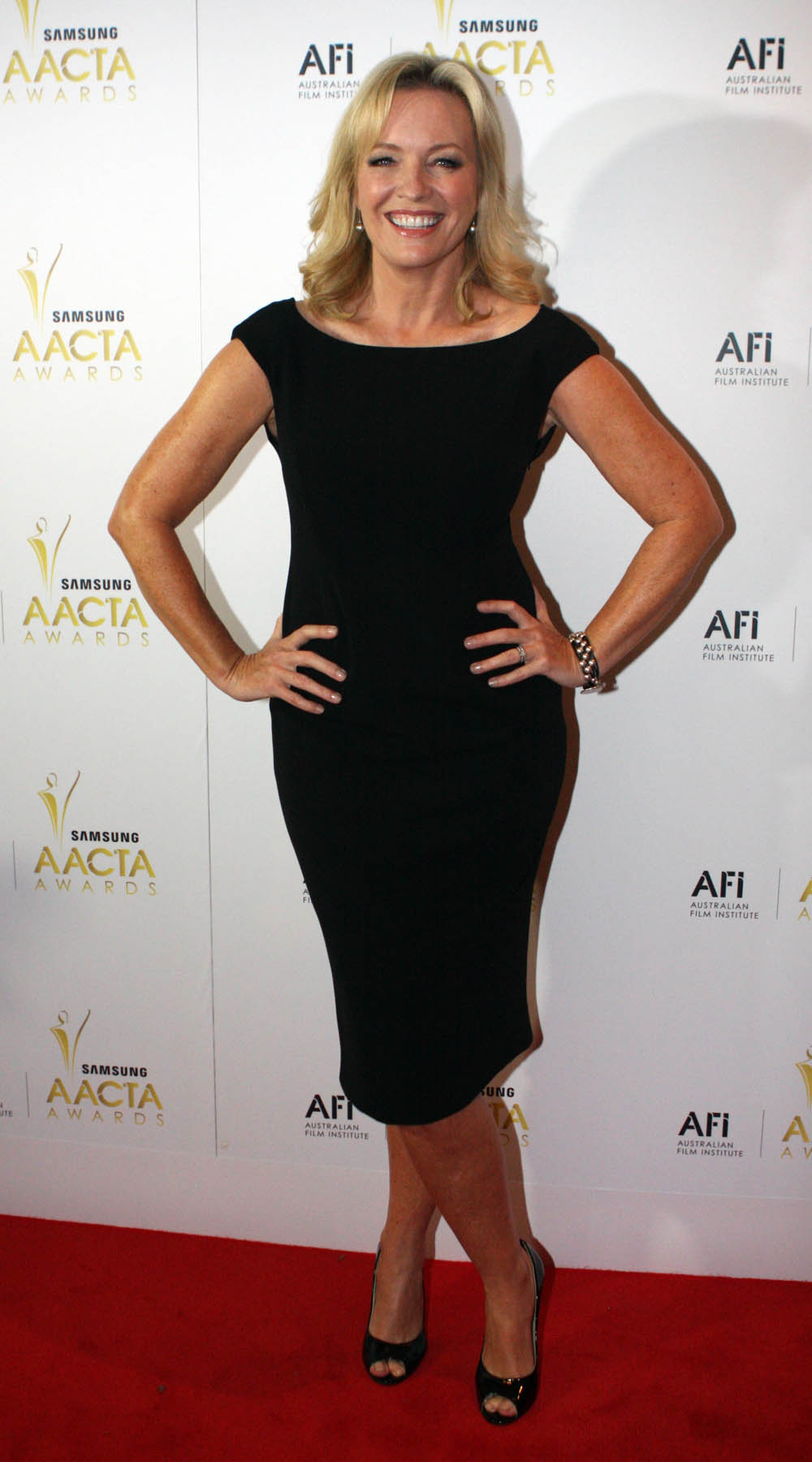 Rebecca Gibney, 2012, AACTA Awards Results From Sydney, Australia.